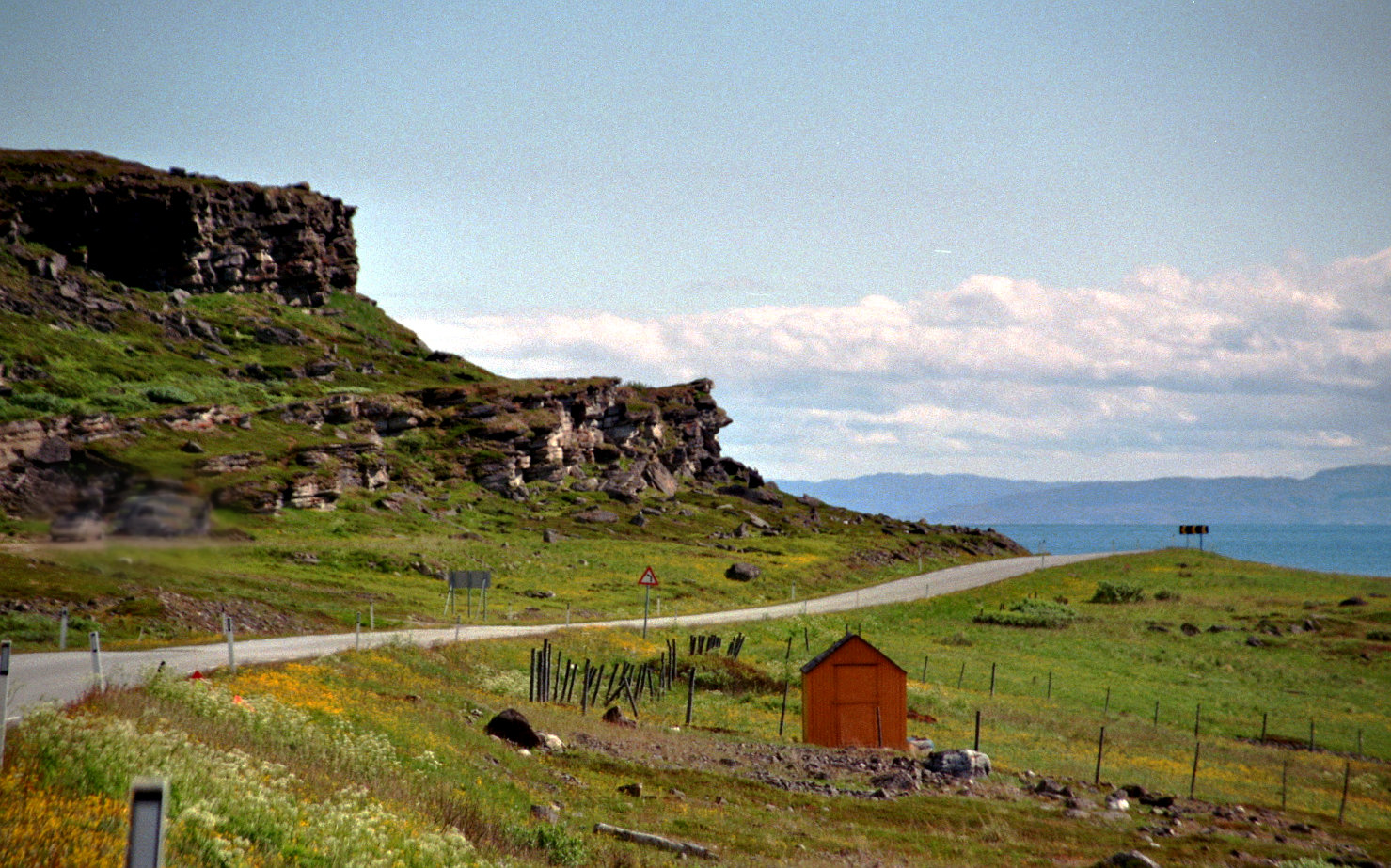 Highway E75 on the norther shore of the Varangerfjord in Finnmark in northern Norway